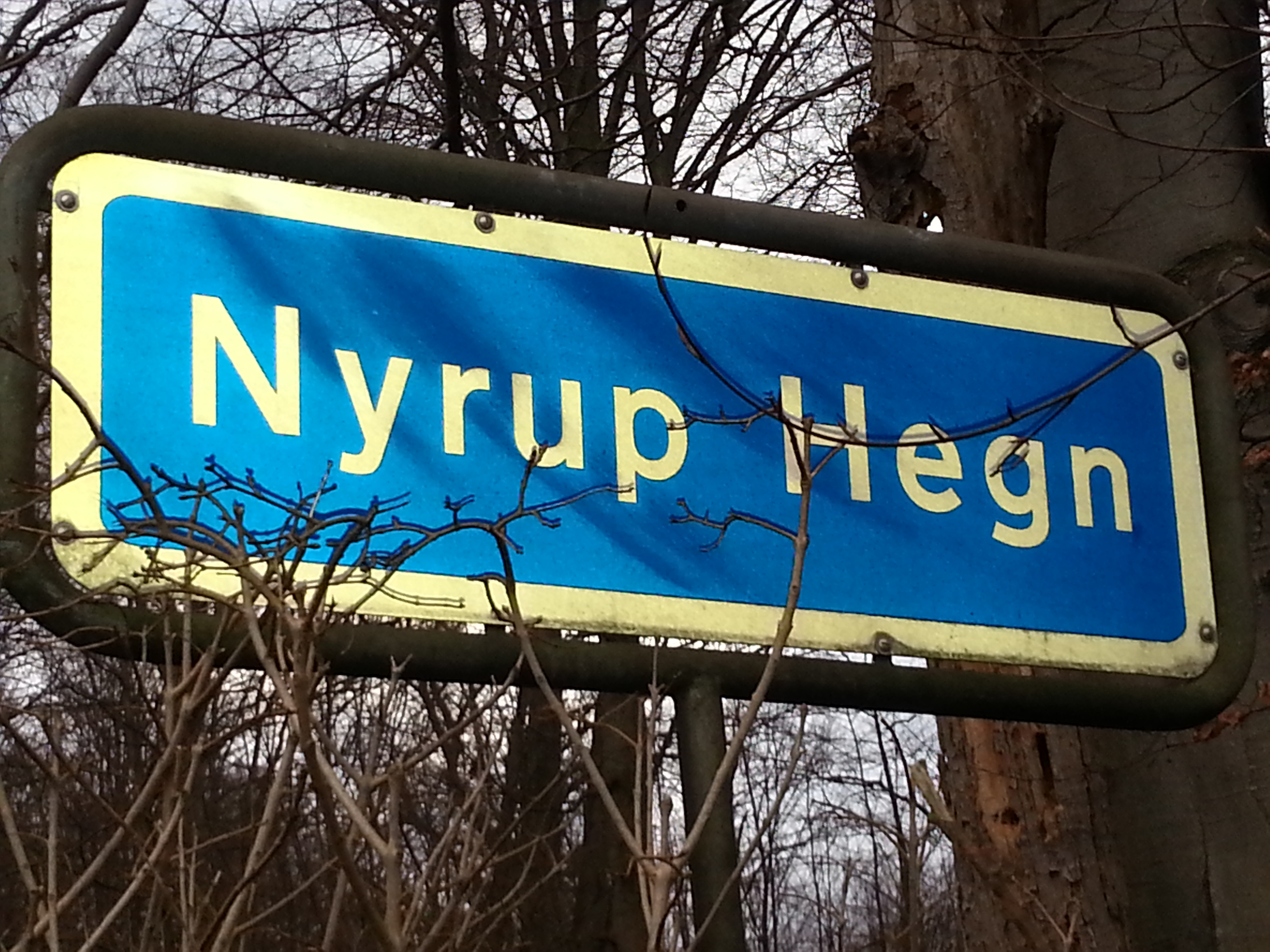 Name sign